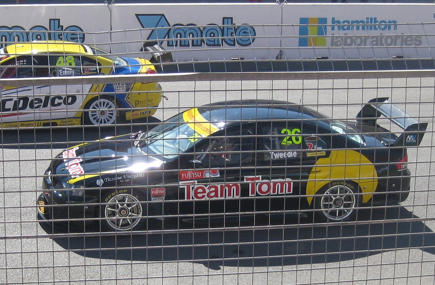 The Ford BF Falcon of Tom Tweedie at the Adelaide Parklands Circuit for the opening round of the 2011 Fujitsu V8 Supercar Series